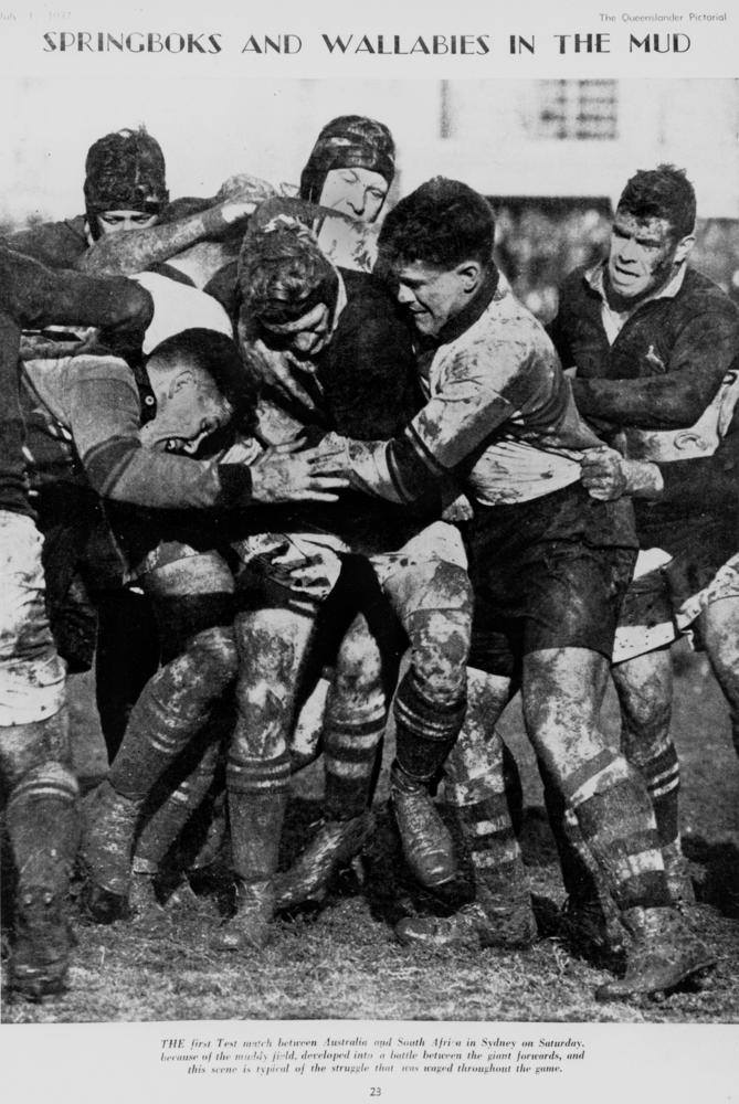 The first Rugby Union Football Test match between Australia (Wallabies) and South Africa (Springboks) in Sydney on Saturday, because of the muddy field, developed into a battle between the giant forwards, and this scene is typical of the struggle that was waged throughout the game. The match was played at the Sydney Cricket Ground. (Description taken from photograph.)